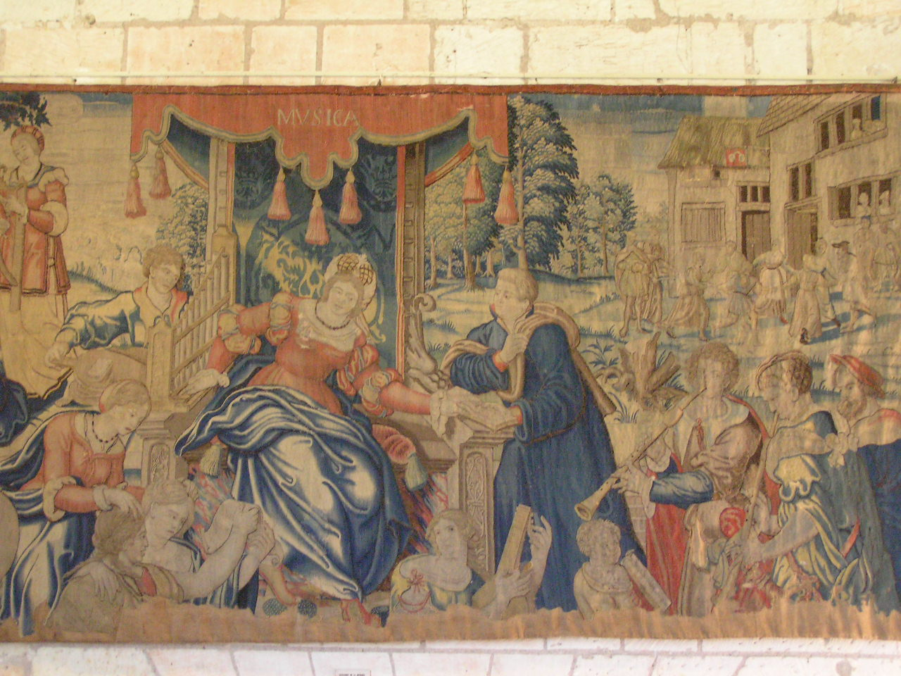 Castle of Loches, tapictry from Brussels "Allégorie de la musique"